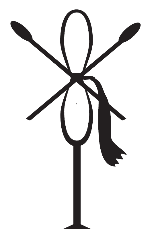 Emblem of Neith